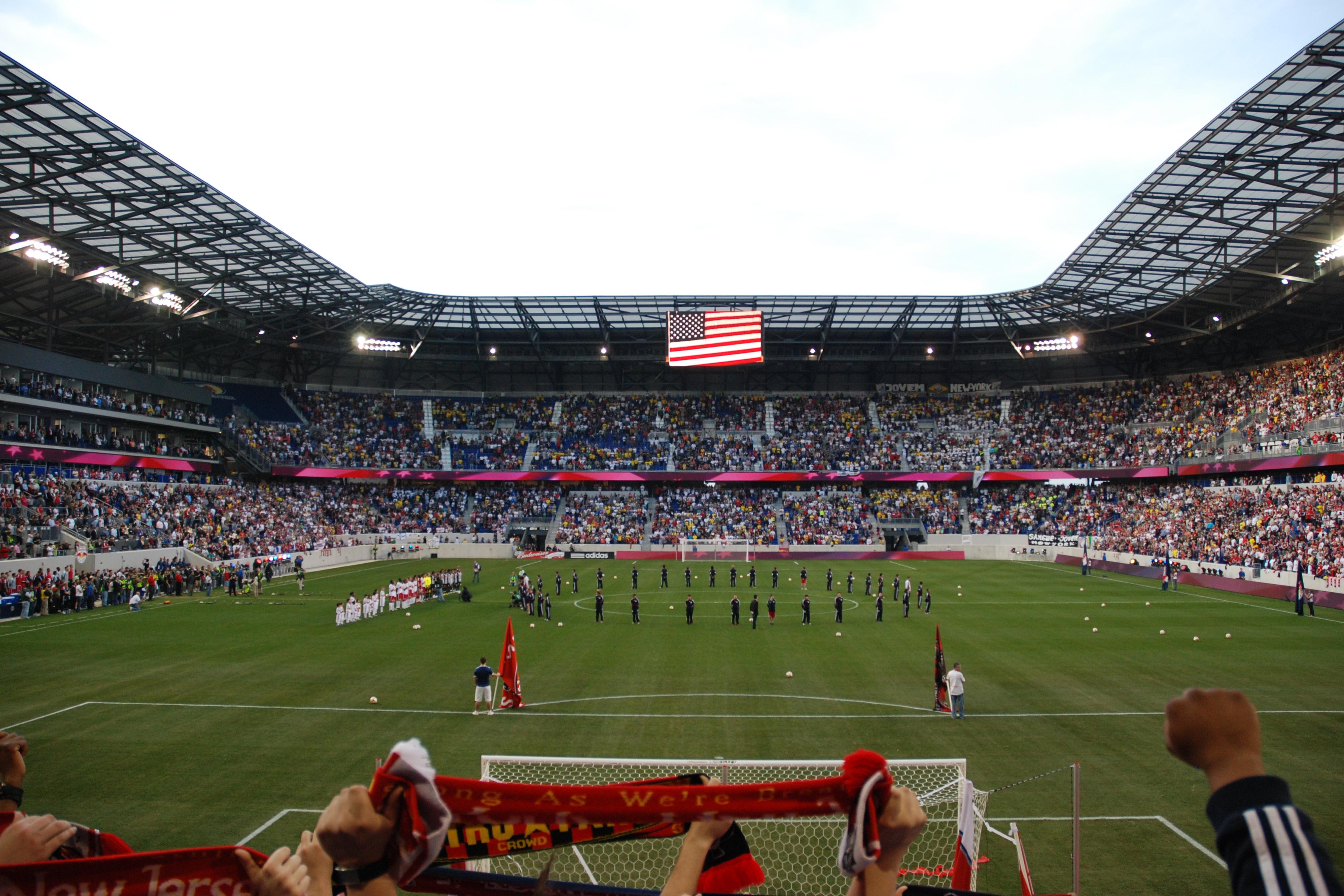 View from behind the goal at Red Bull Arena in Harrison, NJ.